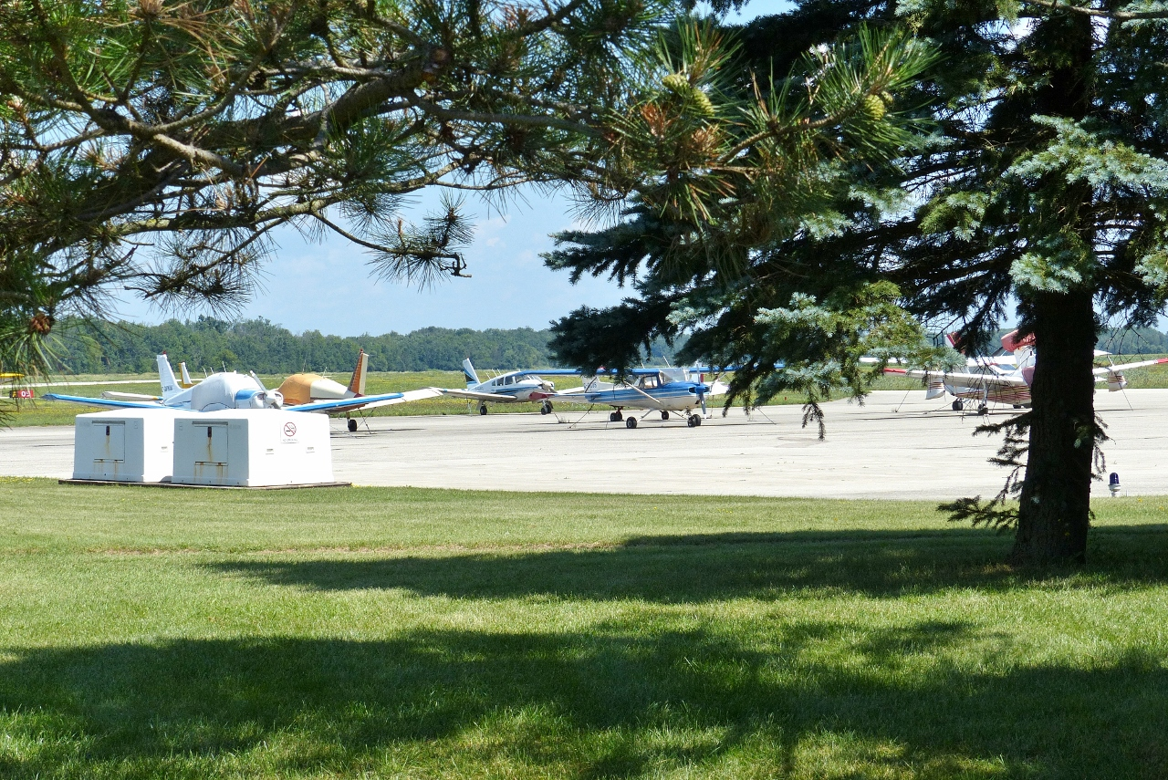 The fuel pumps and apron at Stratford Municipal Airport.